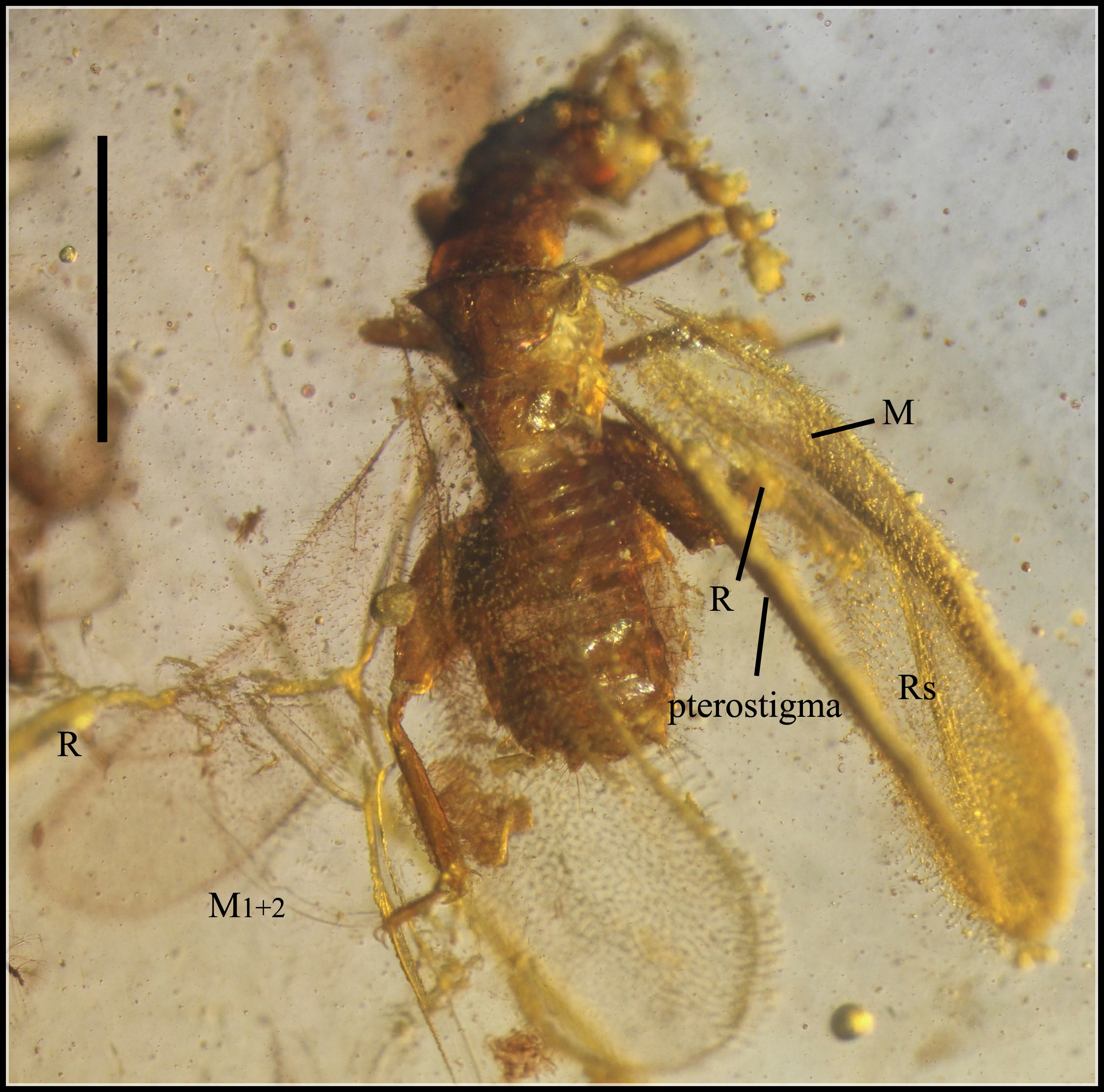 Dorsal habitus of Zorotypus hukawngi, female. Scale bar: 1.0 mm.